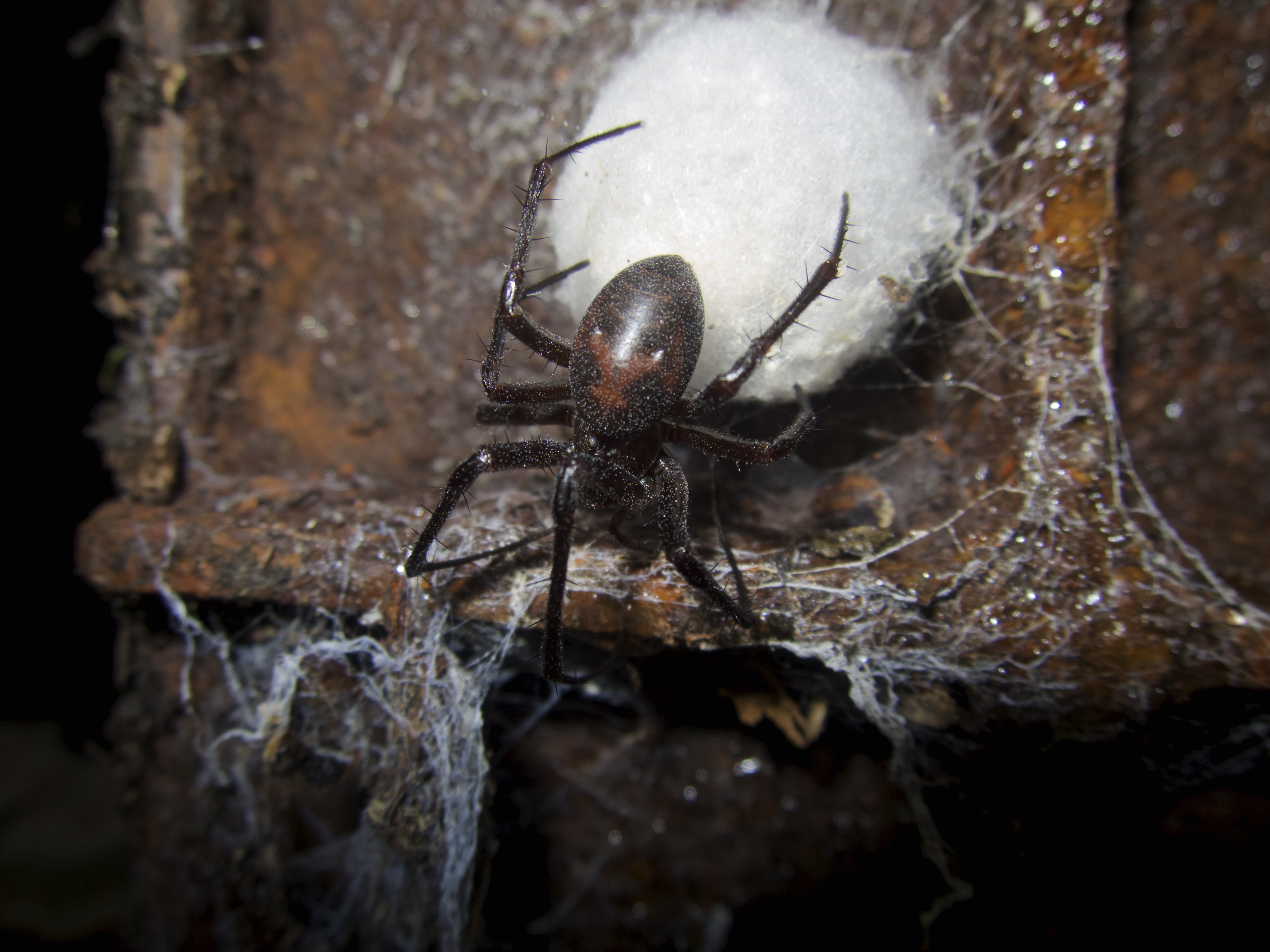 Meta bourneti female on its egg sac. Found under a manhole in a forest in the Parisian region, France.